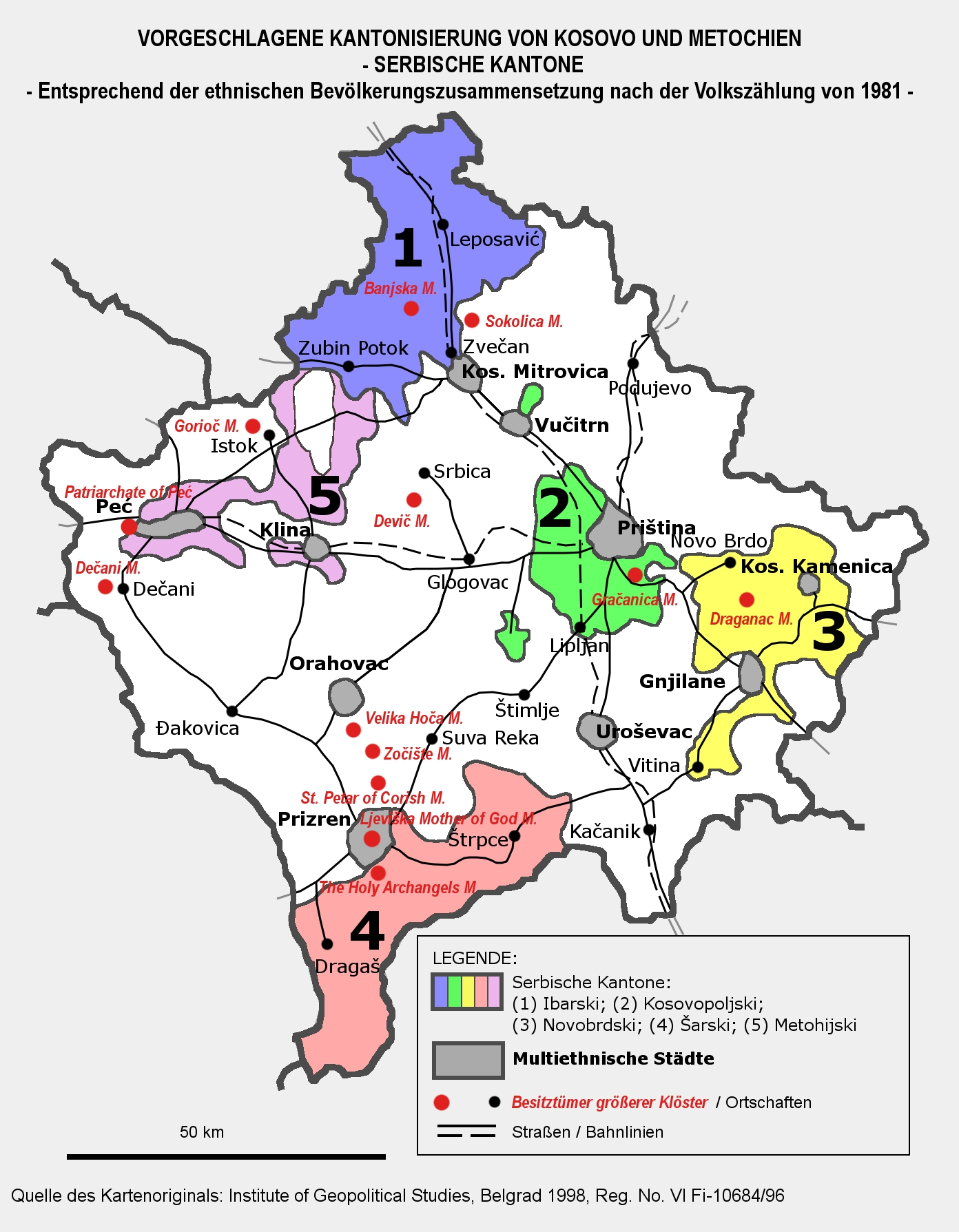 Proposed Cantonization of Kosovo and Metohija - Serbian Cantons - According to ethnic composition of population of the 1981 census. Source: Institute of Geopolitical Studies, Belgrad 1998 (Creator of the plan's concept: Dušan Bataković; international aspects: Kosta Čavoški; cartographic and demographic sections: Milomir Stepić). Cf. Wolfgang Petritsch, Karl Kaser, Robert Pichler: "Kosovo - Kosova: Mythen, Daten, Fakten". 2nd edition. Wieser, Klagenfurt 1999, ISBN 3-85129-304-5, p. 252f. Cf. also Wolfgang Petritsch, Robert Pichler, '"Kosovo - Kosova - Der lange Weg zum Frieden", Wieser, Klagenfurt et al. 2004, ISBN 3-85129-430-0, p. 153, additional source given there